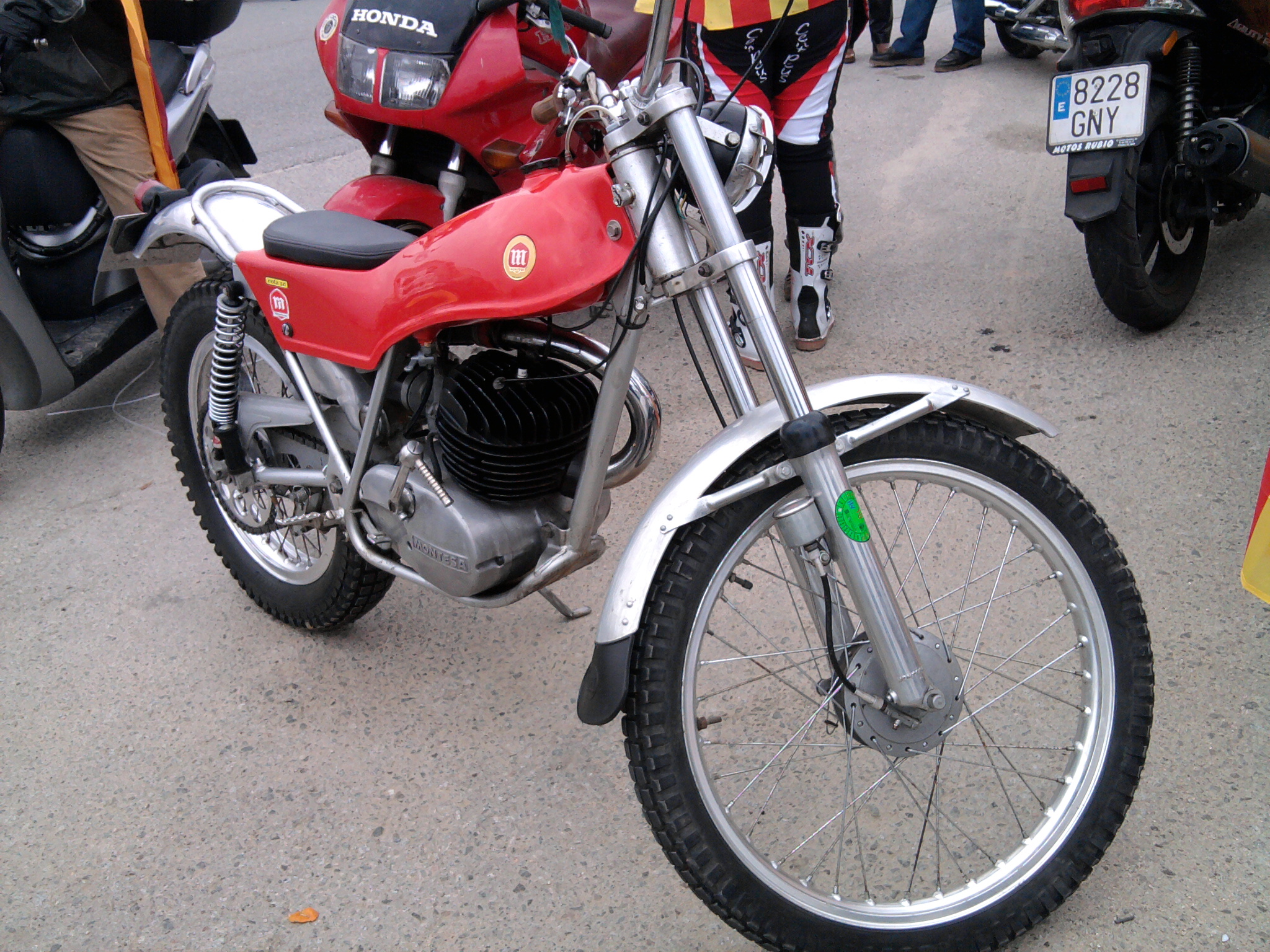 A Montesa Cota 247, seen in Vilassar de Mar (Catalonia)